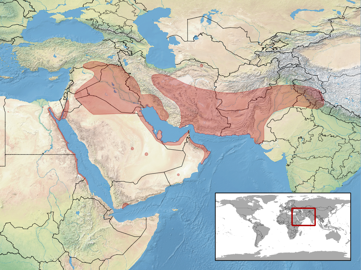 geographic distribution of Cyrtopodion scabrum (Native: Afghanistan; Egypt; Eritrea; Ethiopia; India; Iraq; Israel; Jordan; Kuwait; Oman; Pakistan; Qatar; Saudi Arabia; Sudan; Syrian Arab Republic; Turkey; United Arab Emirates; Yemen / Introduced: Iran, Islamic Republic of; United States (Texas))